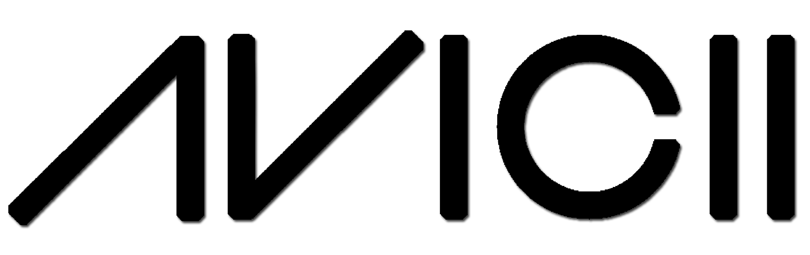 Avicii logo